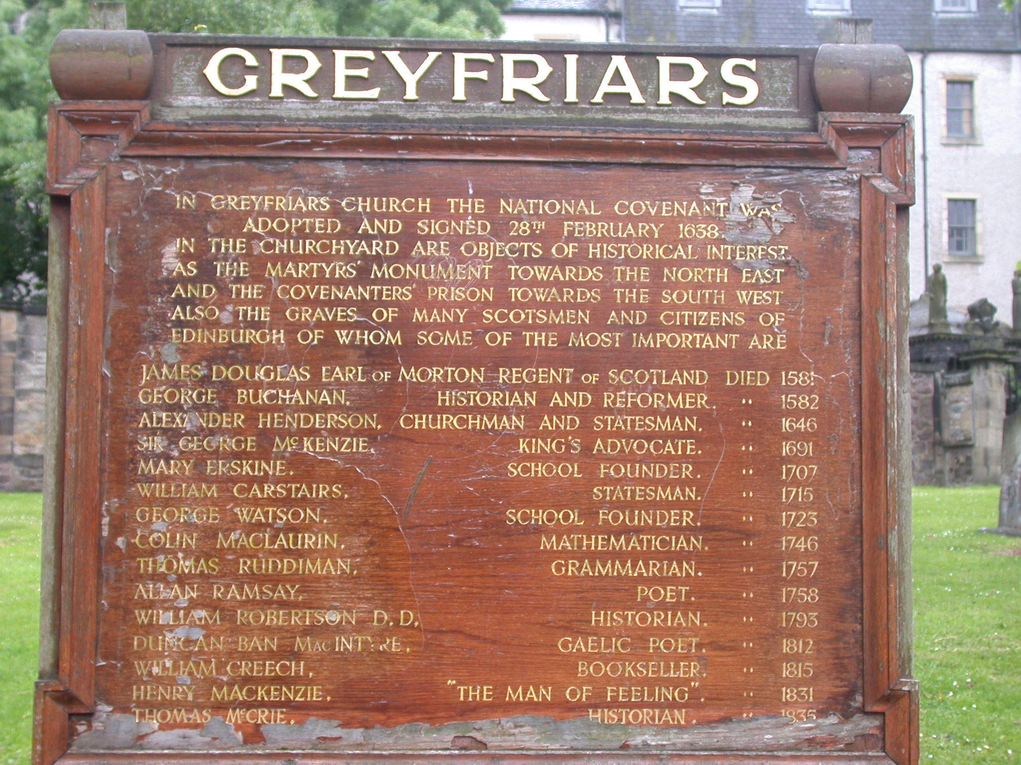 This is a sign at the entrance of Greyfriars Kirkyard, Edinburgh EH1, Scotland.